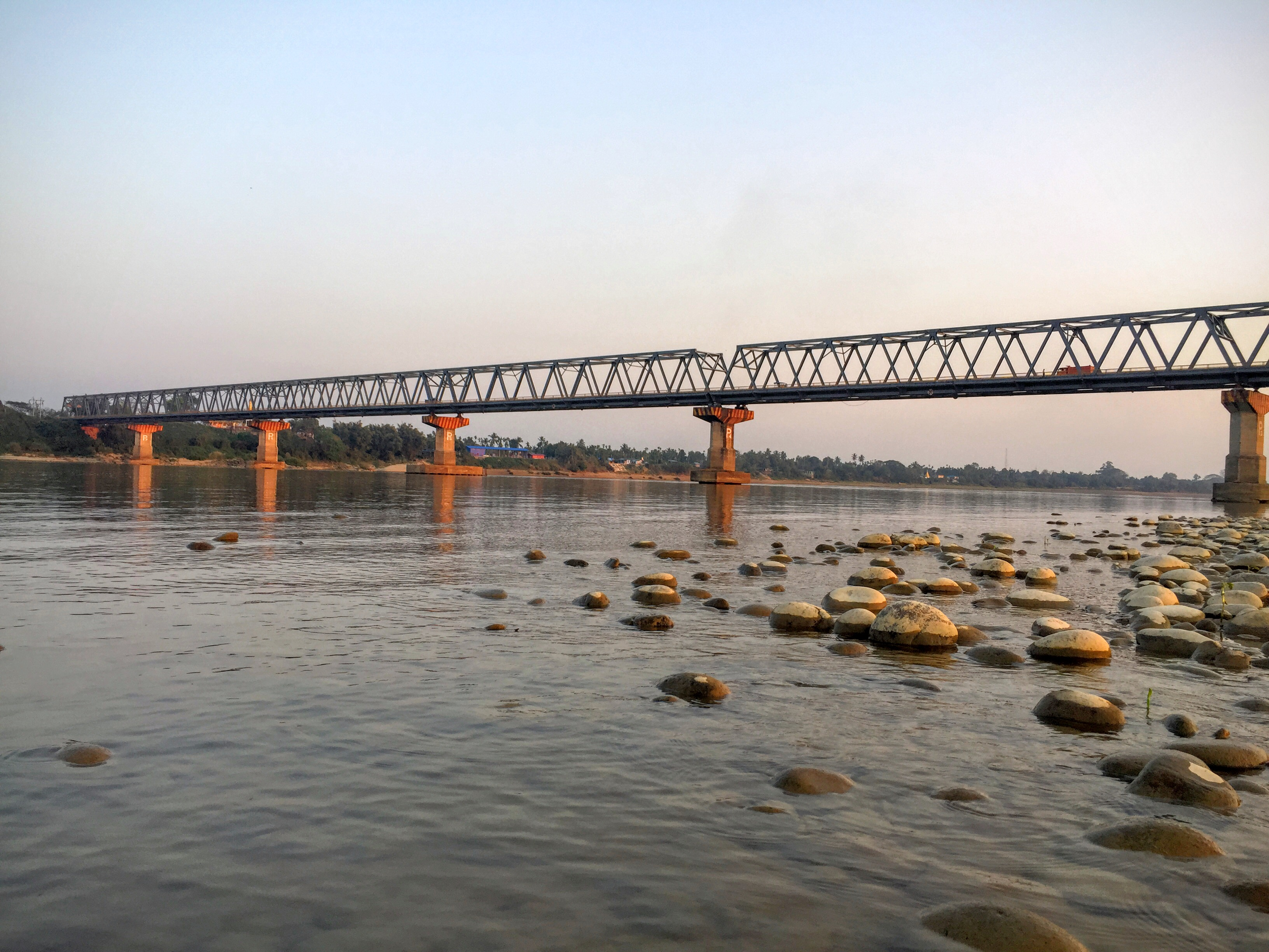 Irrawaddy Bridge